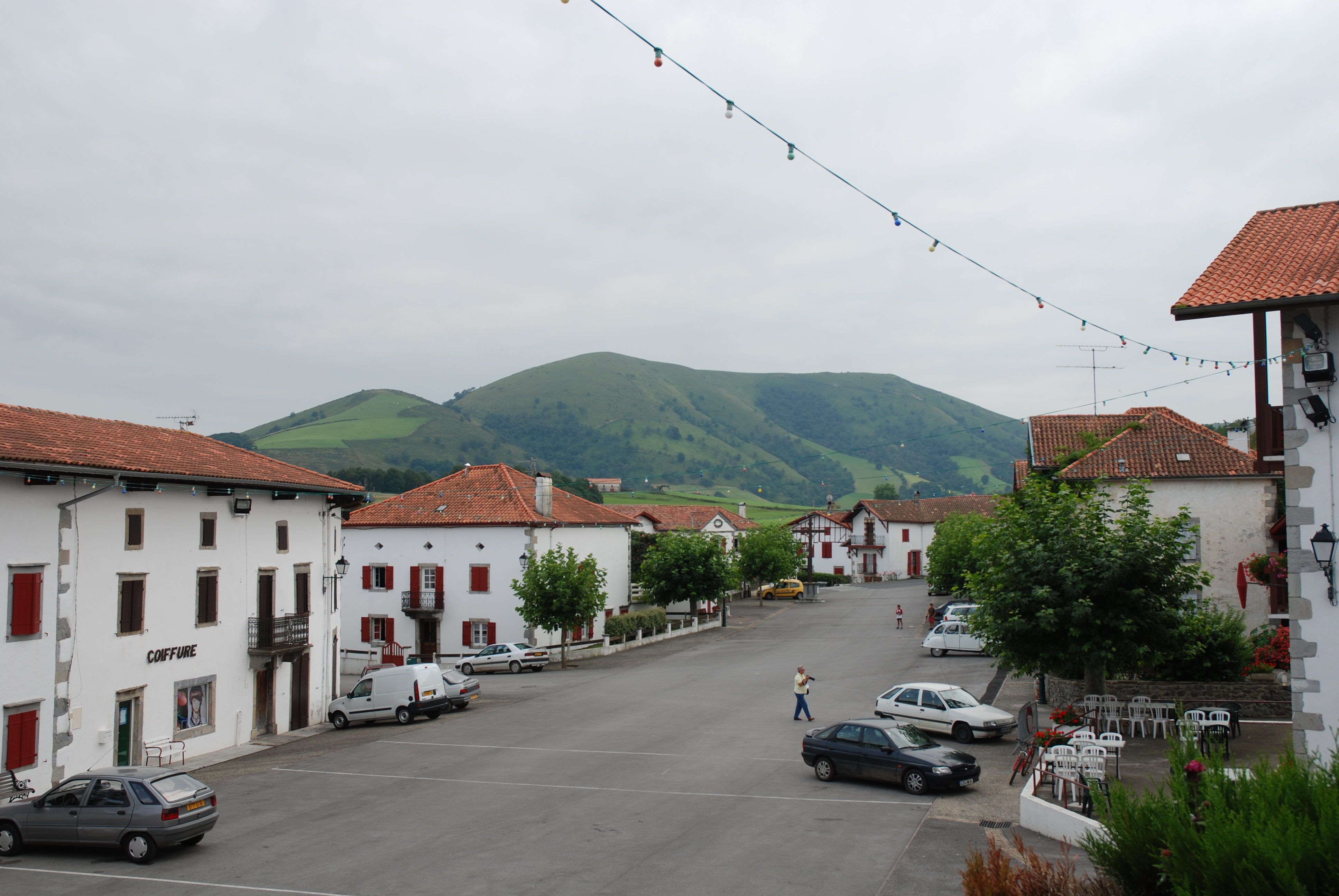 Iholdy, la place